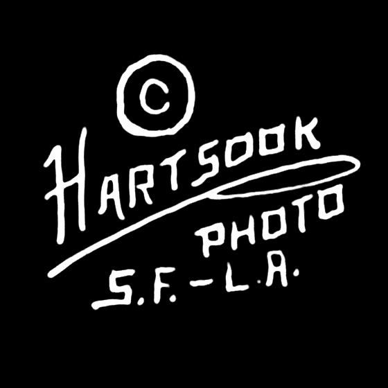 Copyright mark of Hartsook Photo, San Francisco – Los Angeles, 1918